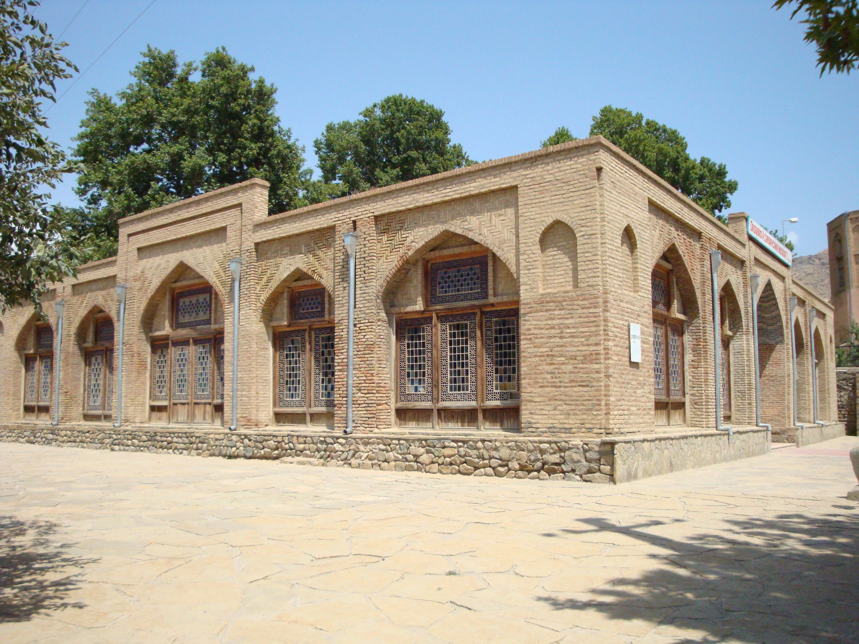 Geysarriya monument in Ordubad. Built in the 17th century.